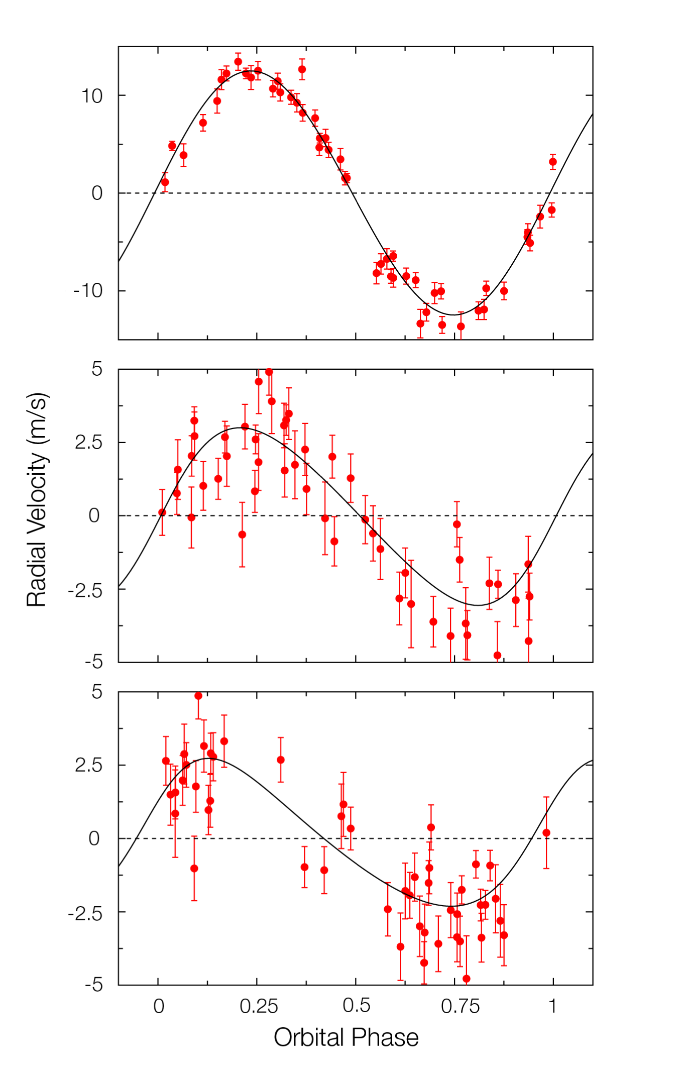 Three-planet Keplerian model of the Gliese 581 radial-velocity variations. The panels display the phase-folded curve of each of the planets, with points representing the observed radial velocities, after removing the effect of the other planets. Top panel refers to the 15 Earth-mass planet orbiting close to the star (5-d period), the middle one is the 5 Earth-mass planet in the habitable zone and the lower panel shows evidence for a third, 8 Earth-mass planet with a period of 84 days. The error on one measurement is of the order of 1 m/s.